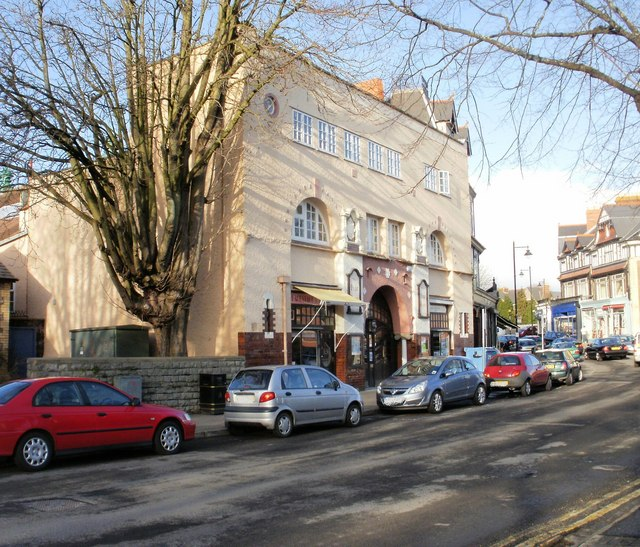 A concert hall located on Victoria Road, the Paget Rooms were designed by John Coates Carter and built in 1906 on land leased from the Earl of Plymouth.